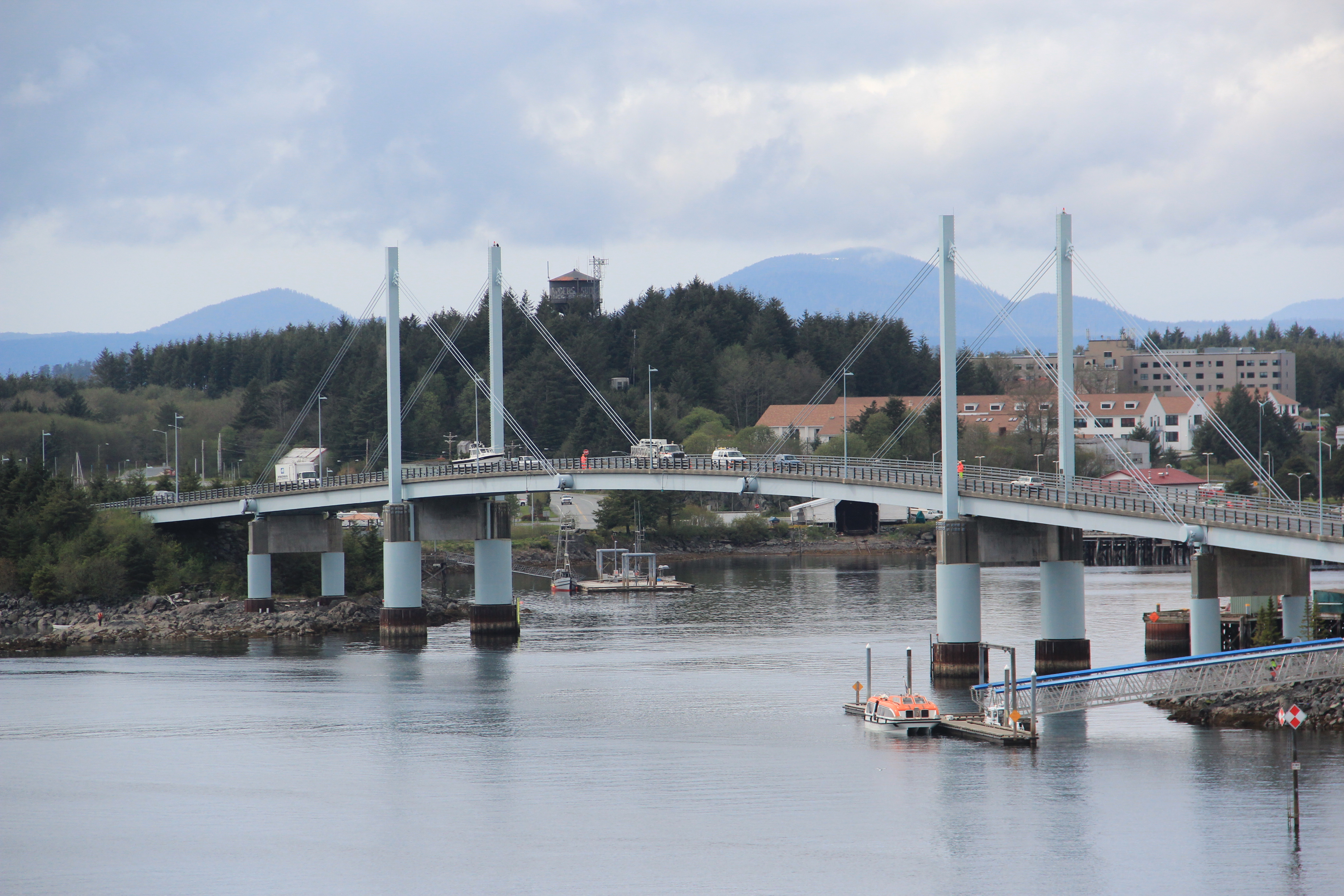 John O'Connell Bridge in 2013